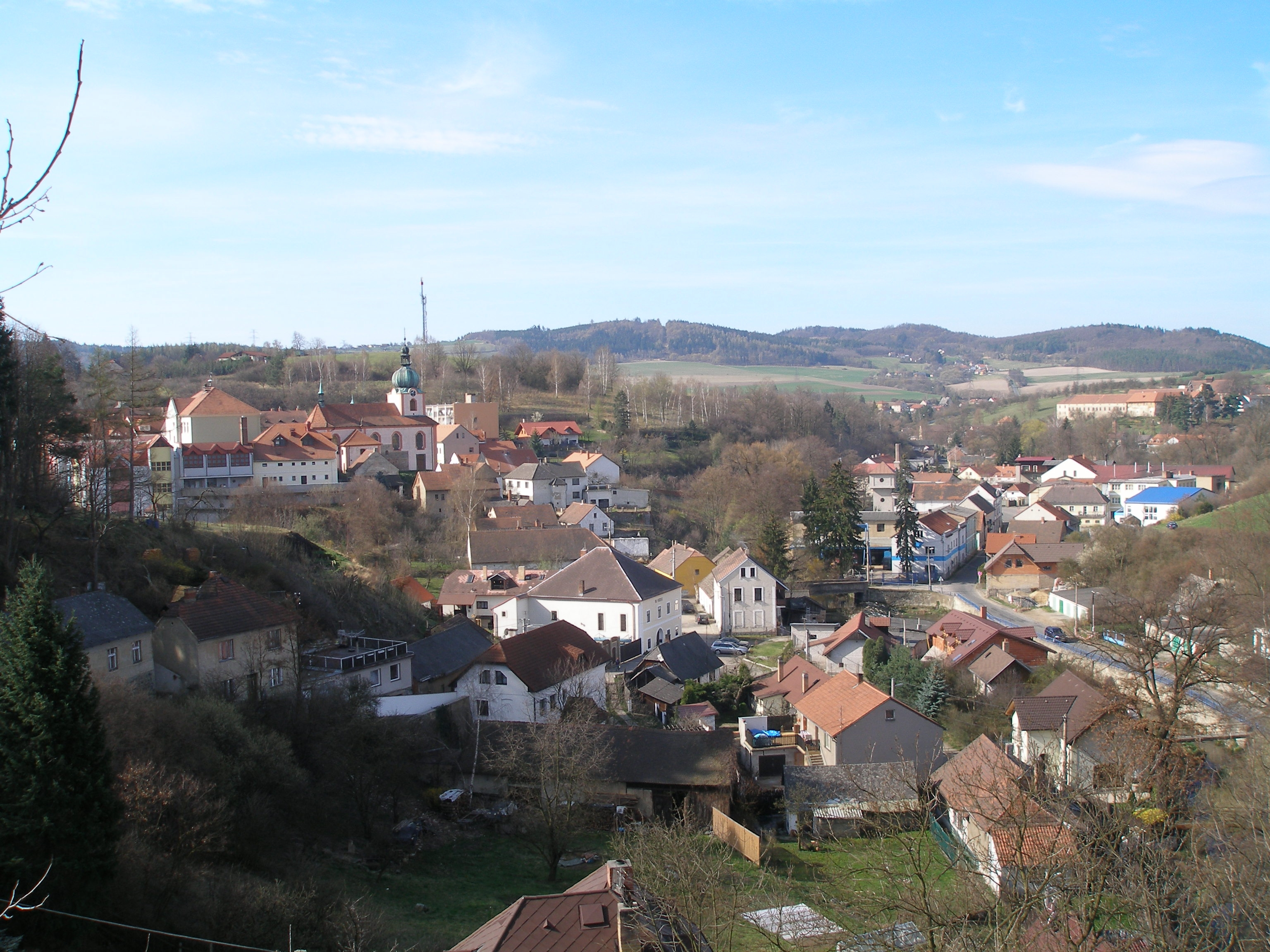 Nový Knín (Czech Republic, Příbram District) - the view of the centre of the city from the north-north-east